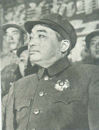 1950年彭德怀为中国人民志愿军司令员兼政治委员。